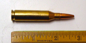 .243 WIN rifle cartridge I took this picture and hereby release it into the public domain. -- Captaindan 18:38, 19 December 2005 (UTC)